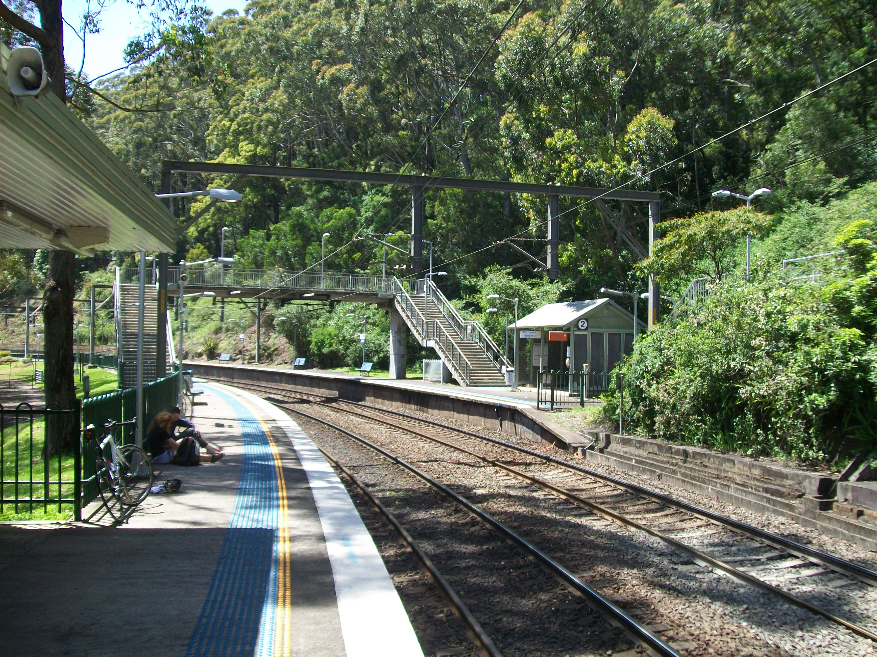 Otford railway station